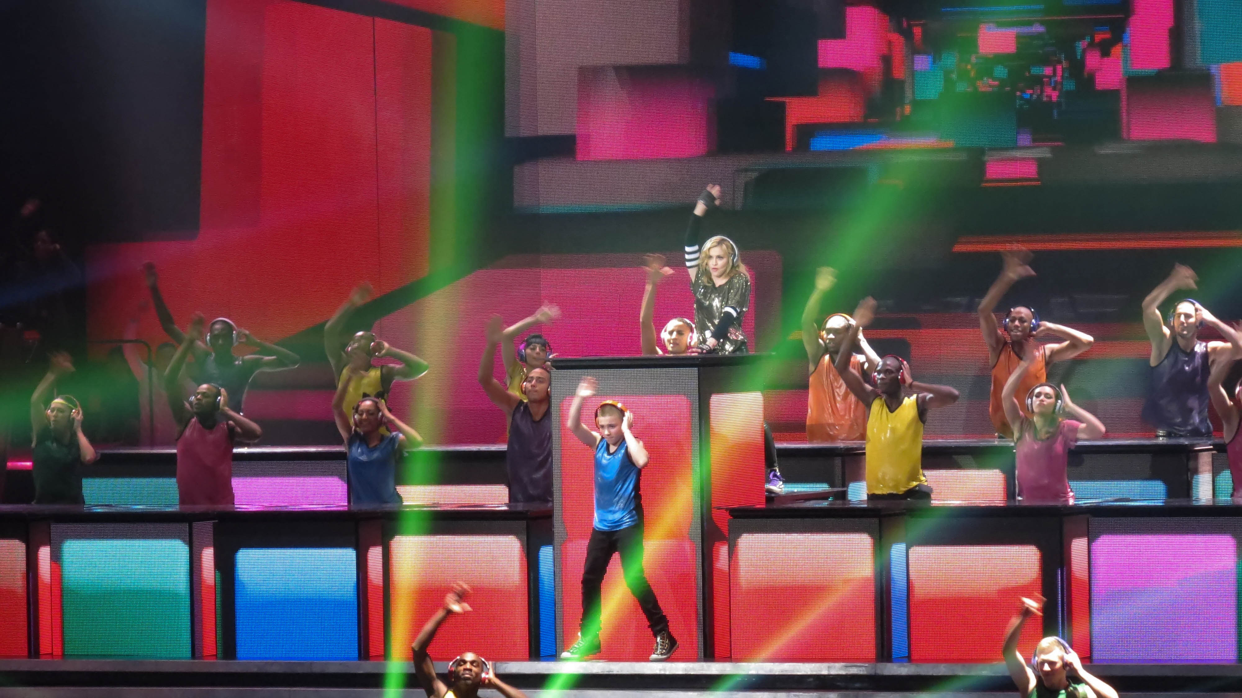 Madonna concert in Seattle